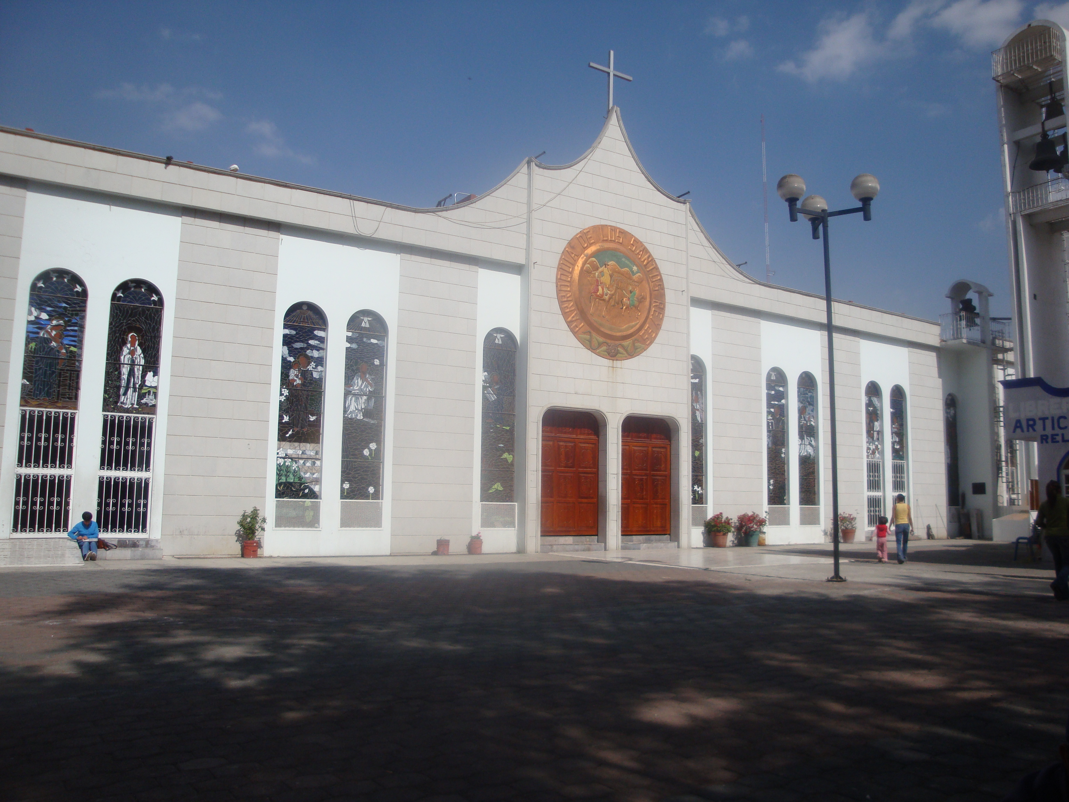 New Church of Holy Kings in La Paz, Mexico State